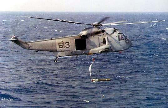 A U.S. Navy Sikorsky SH-3H Sea King of Heliccopter Anti-Submarine Squadron HS-7 "Dusty Dogs" dropping a Mk 46 torpedo. HS-7 was assigned to Carrier Air Wing 3 (CVW-3) aboard the aircraft carrier USS John F. Kennedy (CV-67) for a deployment to the Mediterranean Sea from 2 August 1988 to February 1989.